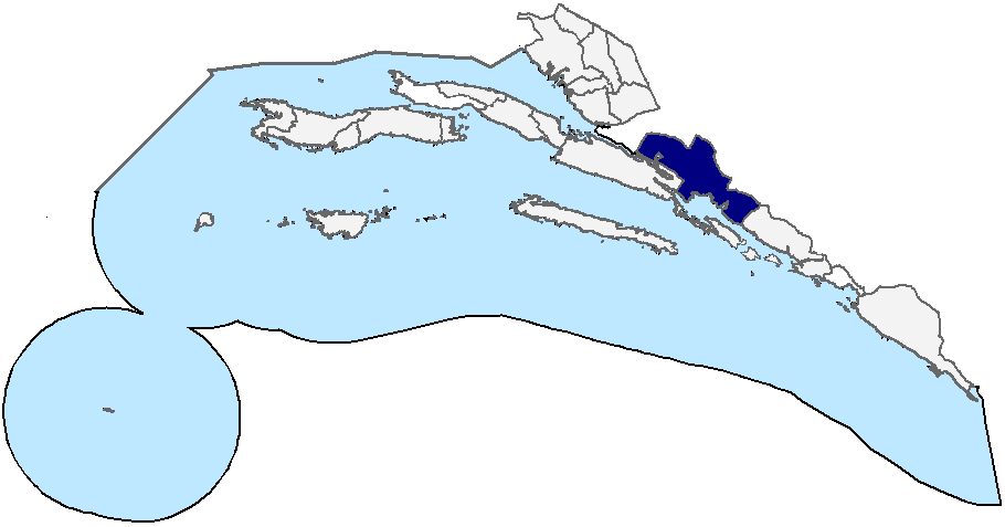 map of Dubrovačko Primorje municipality within Dubrovnik-Neretva County.